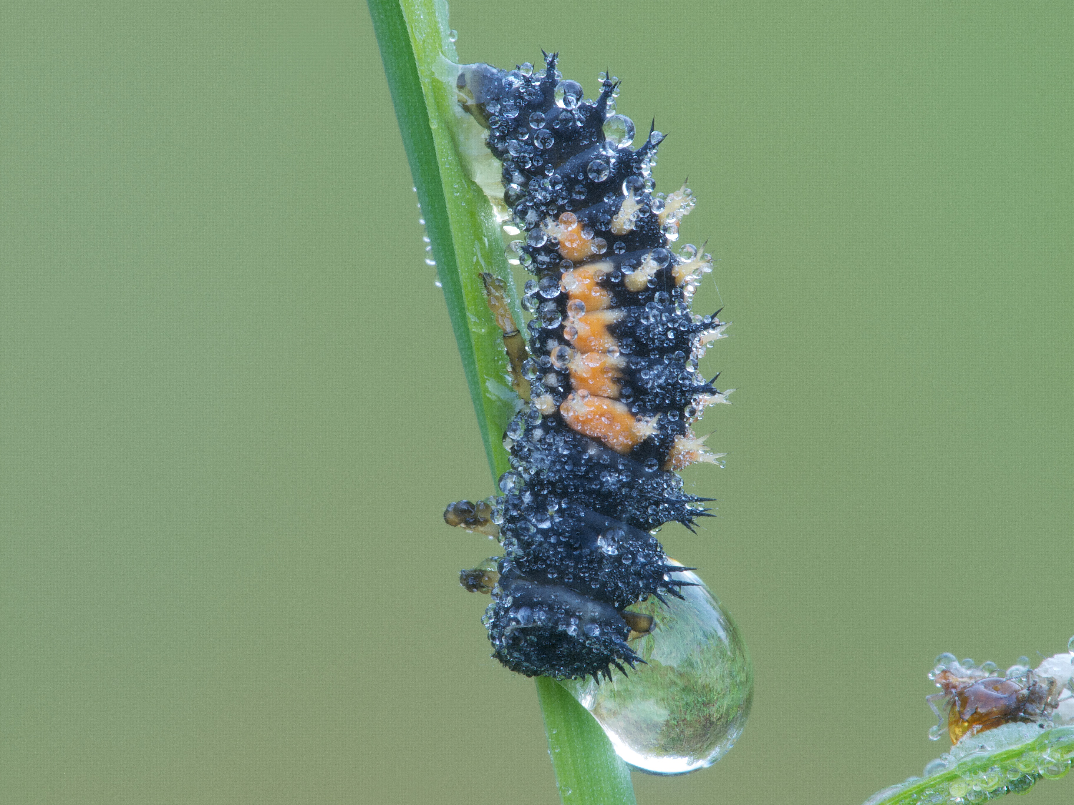 Asian ladybird beetle larva (Harmonia axyridis)